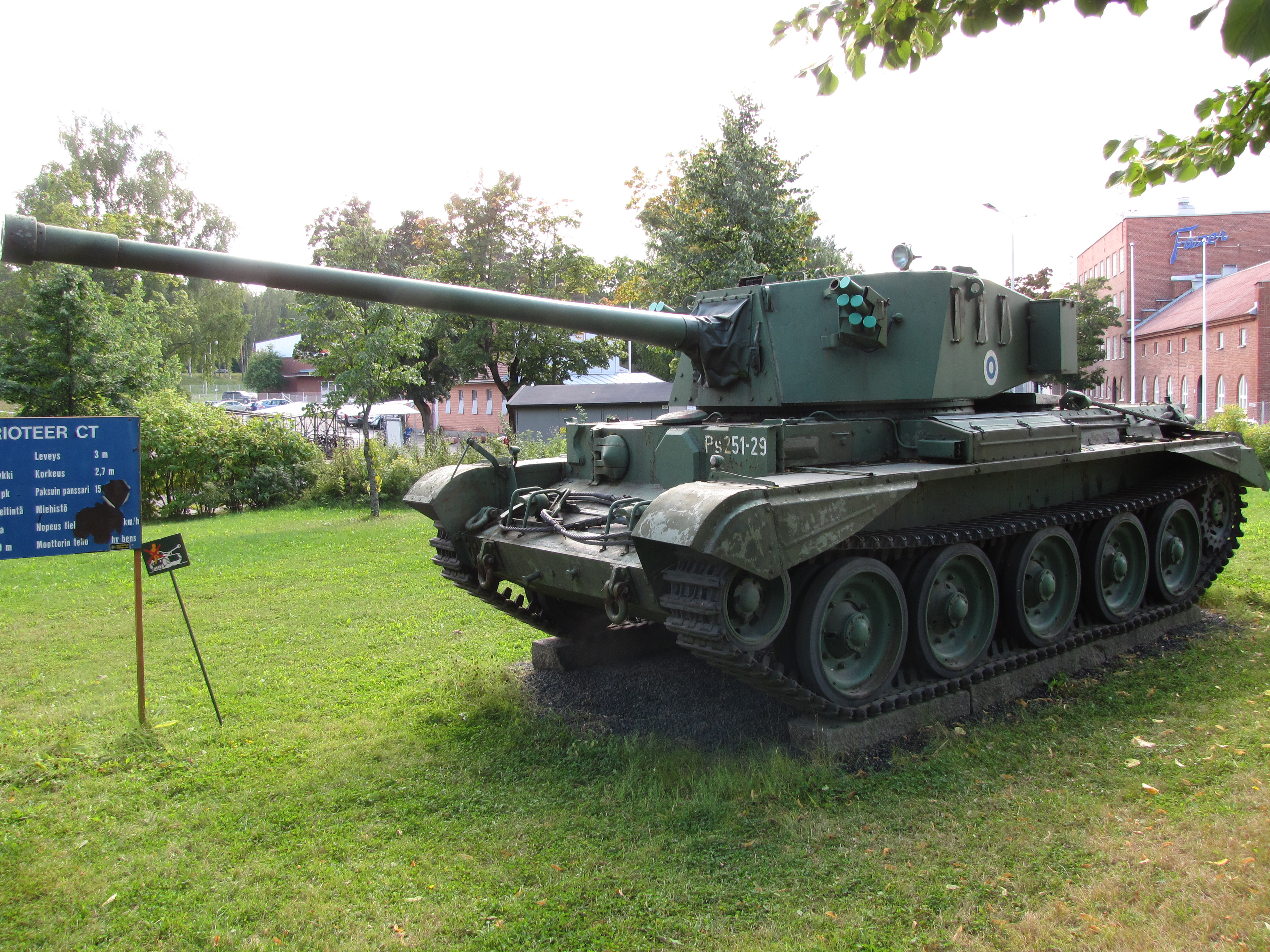 Charioteer Ps 251-29 in Lappeenranta.